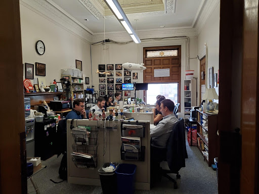 The staff of the State House News Service in Boston works in its office in Room 458 of the State House in 2019.